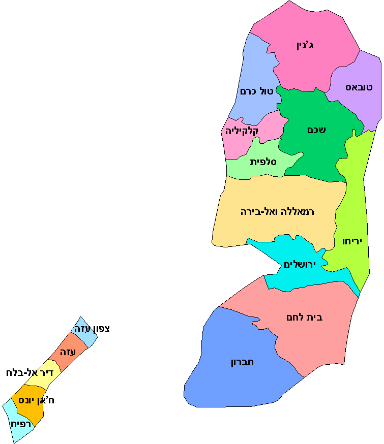 Map of the governorates of Palestine.